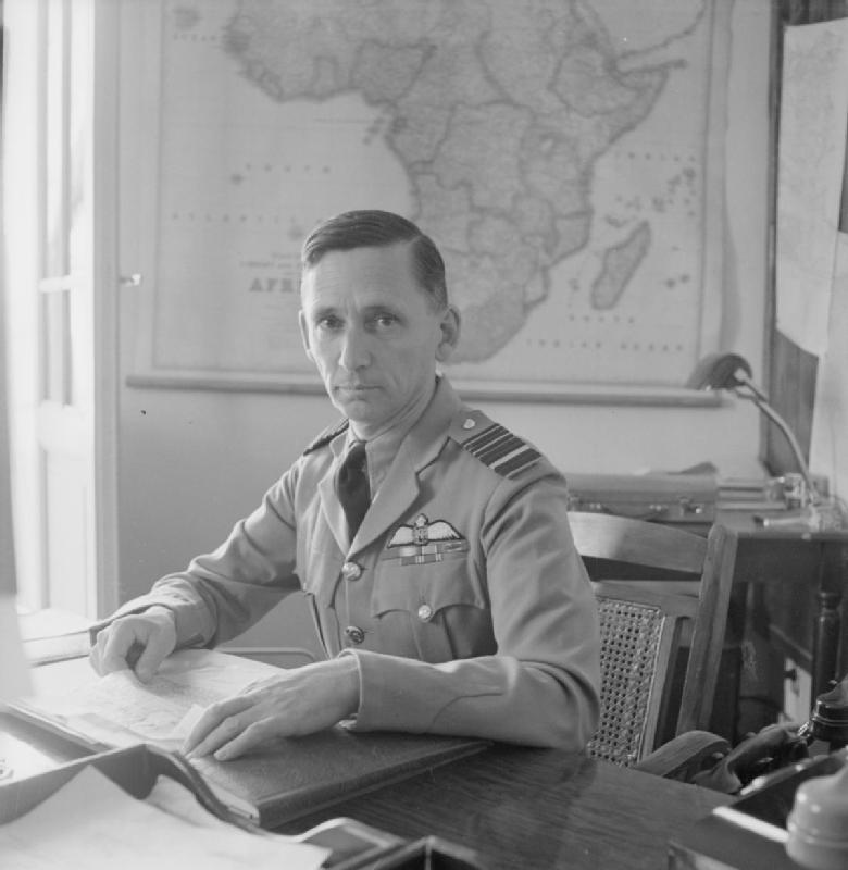 Portrait of the Air Officer Commanding-in-Chief, Middle East Forces, Air Chief Marshal Sir Arthur Tedder sitting at his desk at Air House, his official residence in Cairo, Egypt.